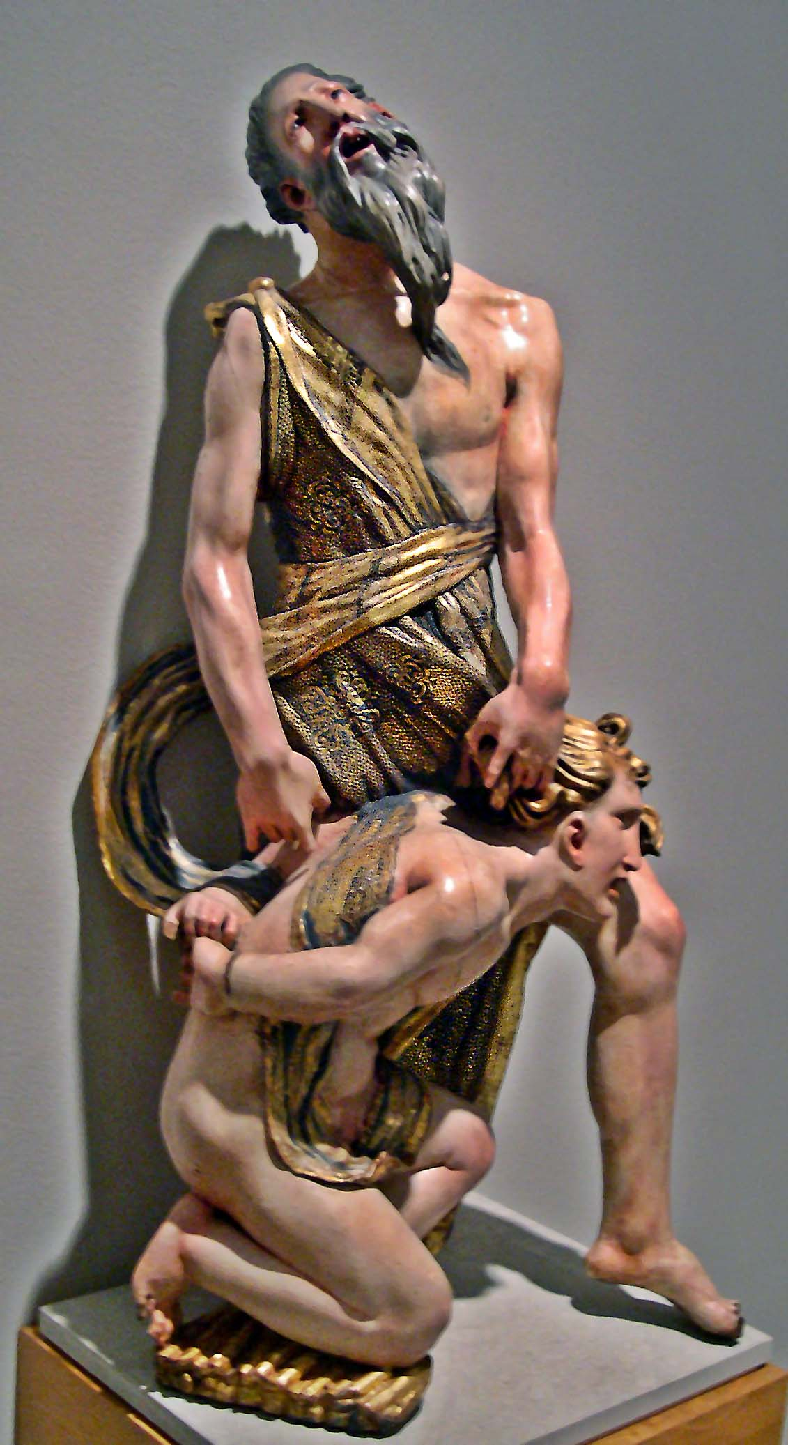 The Binding of Isaac, sculpture in polychromed wood, part from the altarpiece of St. Benedict monastery, in Valladolid (Spain), actually exposed in the Museo Nacional de Escultura de Valladolid